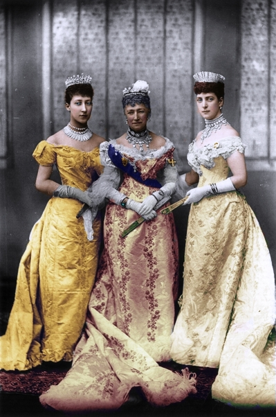 Alexandra of Denmark, with her mother Louise of Hesse-Kassel and her daughter Louise, Princess Royal and Duchess of Fife